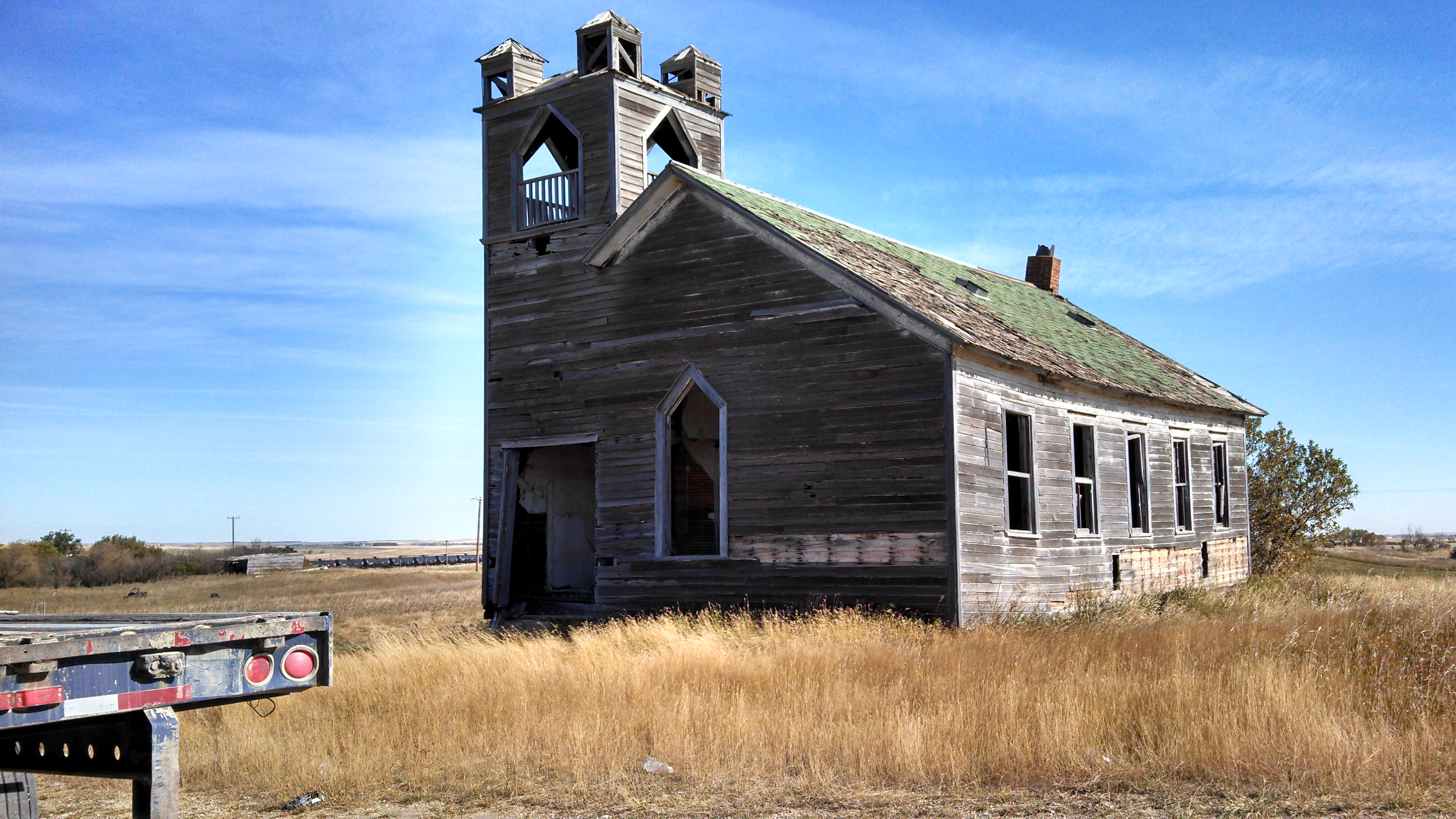 Church/ public school building